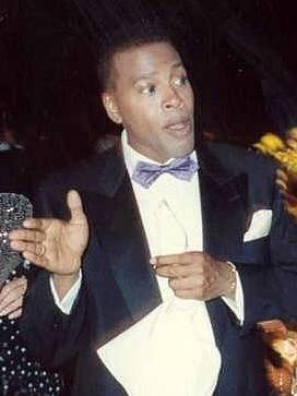 Meshach Taylor (center) talks with Mike Clark at the Governor's Ball following the 41st Annual Emmy Awards, 9/17/89